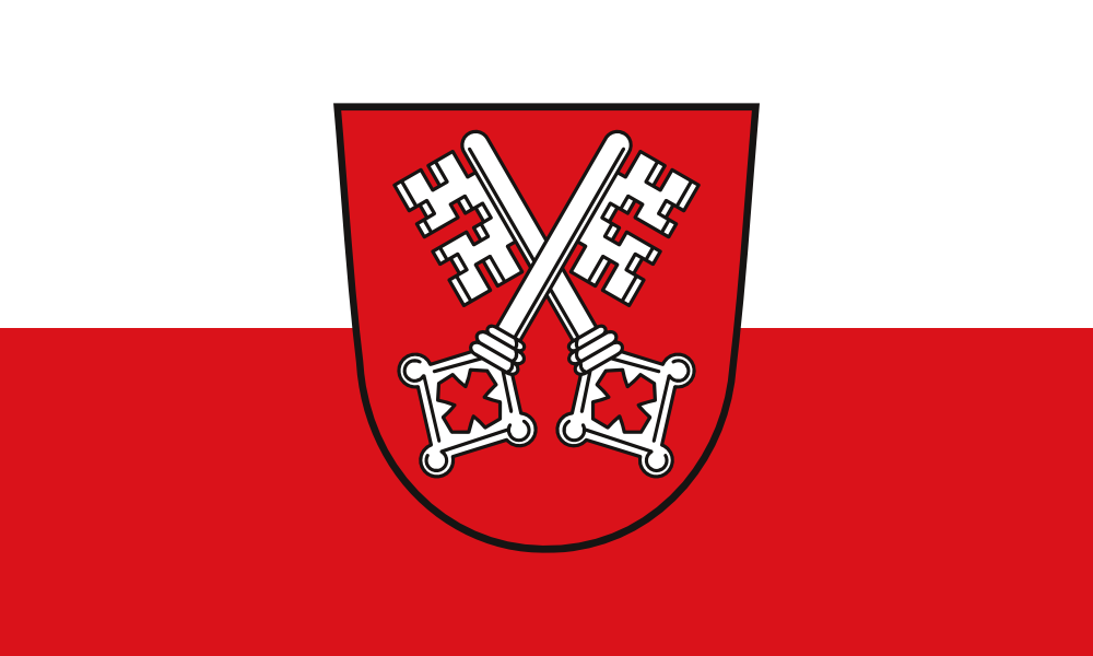 Flag of Regensburg